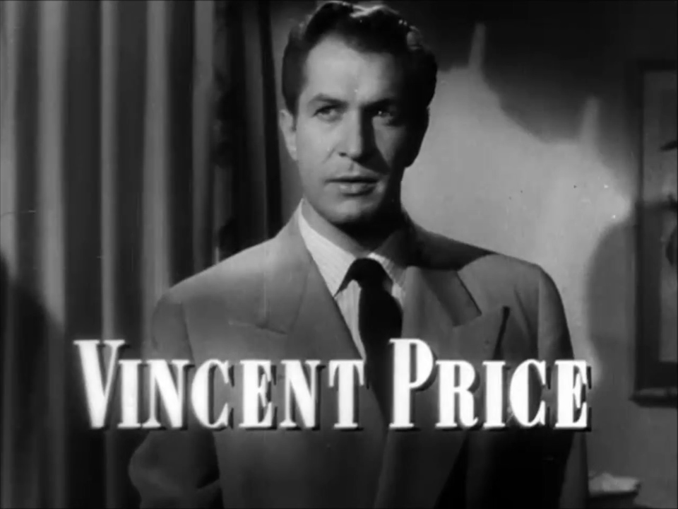 Cropped screenshot of Vincent Price from the trailer for the film Laura.